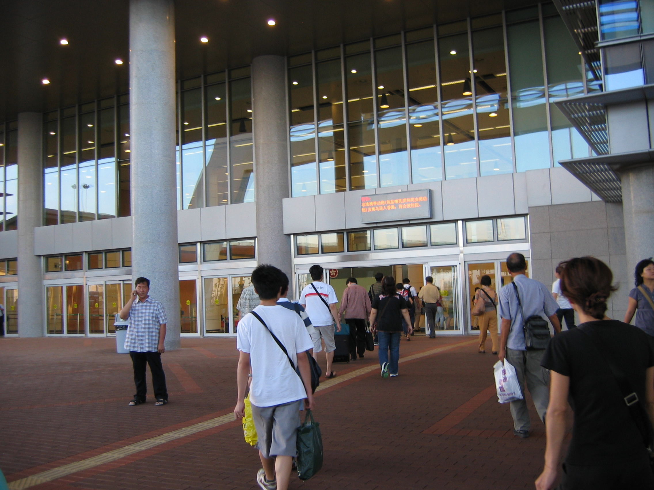 Entrance to Shenzhen Bay Port Passenger Terminal(深圳灣口岸旅檢大樓入口)